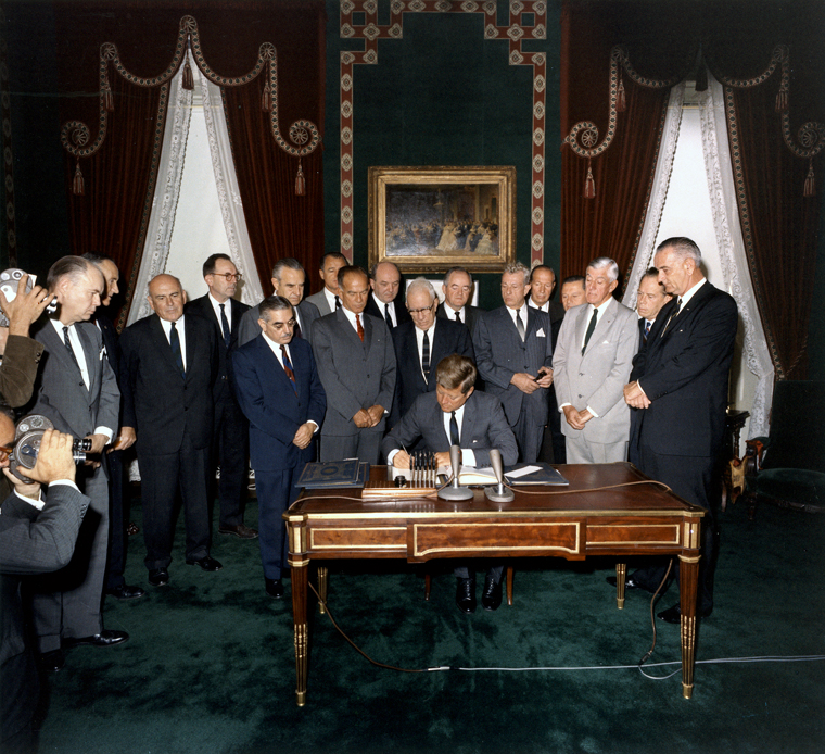 KN-C30095 07 October 1963 President Kennedy the Limited Nuclear Test Ban Treaty. L-R: William Hopkins, Sen. Mike Mansfield, John J. McCloy, Adrian S. Fisher, Sen. John Pastore, W. Averell Harriman, Sen. George Smathers, Sen. J.W. Fulbright, Sec. of State Dean Rusk, Sen. George Aiken, President Kennedy, Sen. Hubert H. Humphrey, Sen. Everett Dirksen, William C. Foster, Sen. Howard W. Cannon, Sen. Leverett Saltonstall, Sen. Thomas H. Kuchel, Vice President Johnson. White House, Treaty Room.